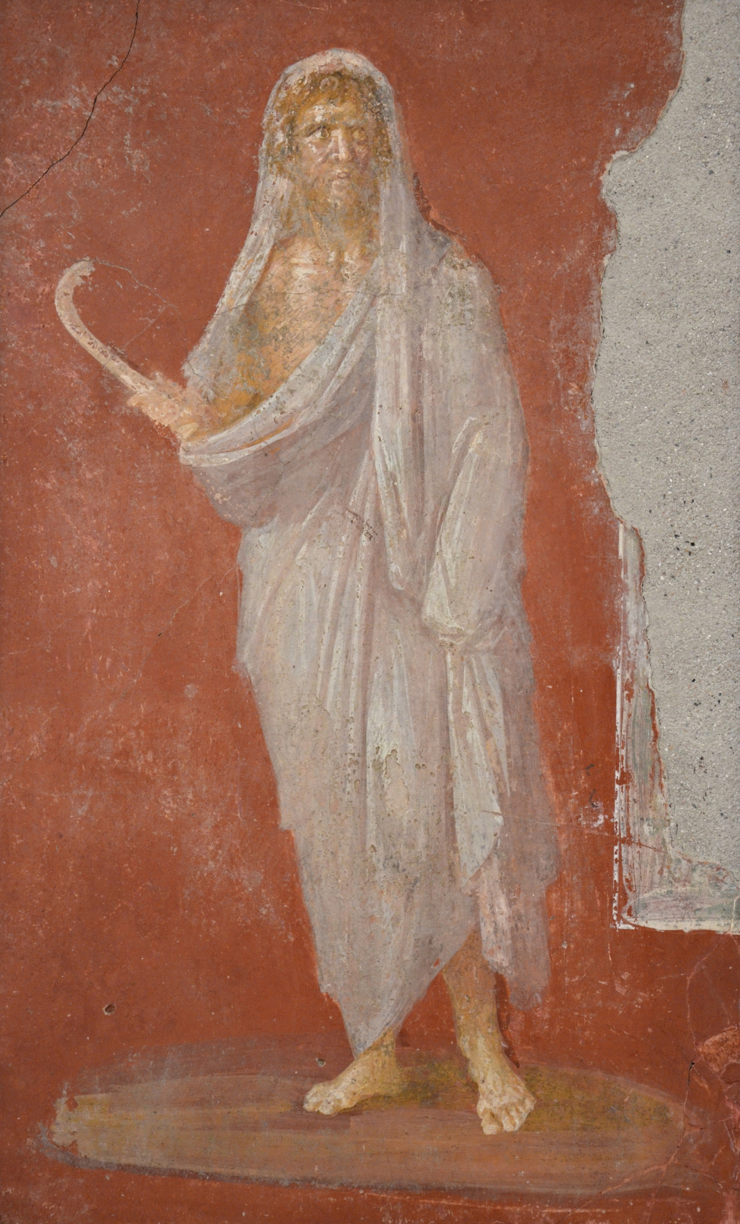 Saturn with head protected by winter cloak, holding a scythe in his right hand, fresco from the House of the Dioscuri at Pompeii, Naples Archaeological Museum